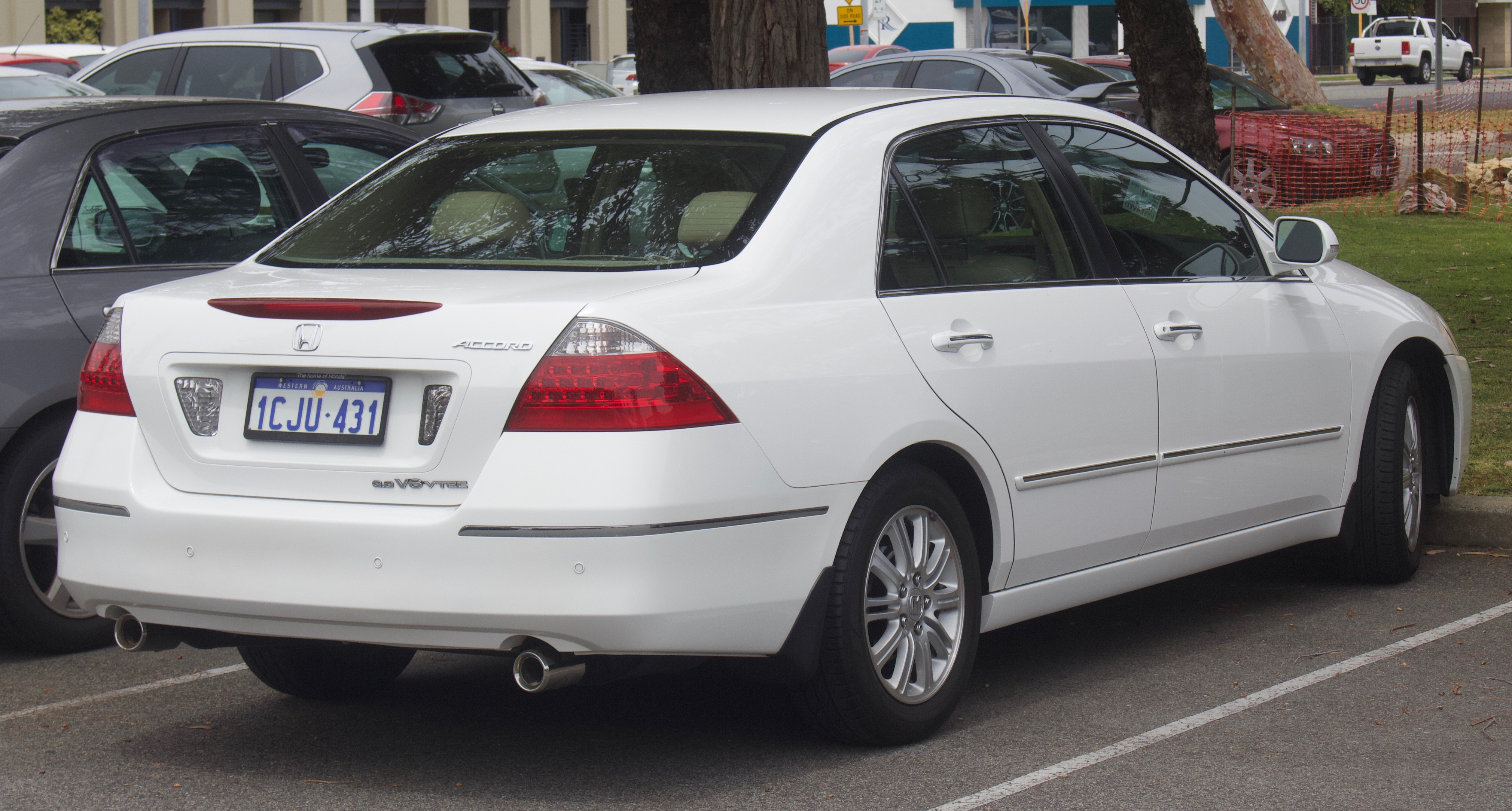 2006 Honda Accord V6L sedan. Photographed in Fremantle, Western Australia, Australia.